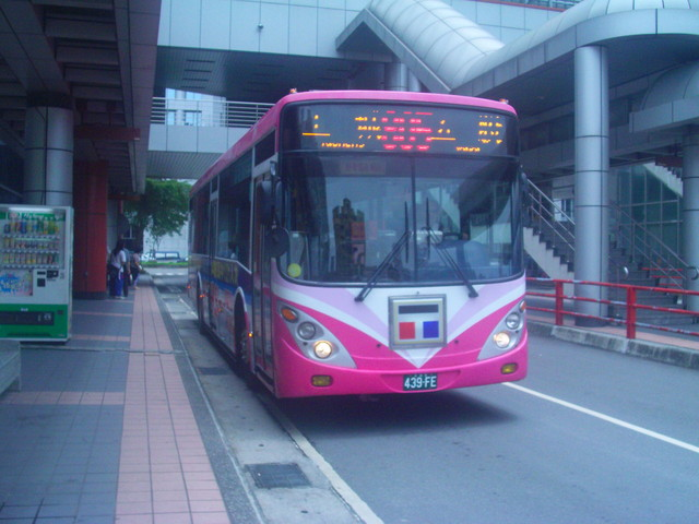 Taipeibus 439FE.